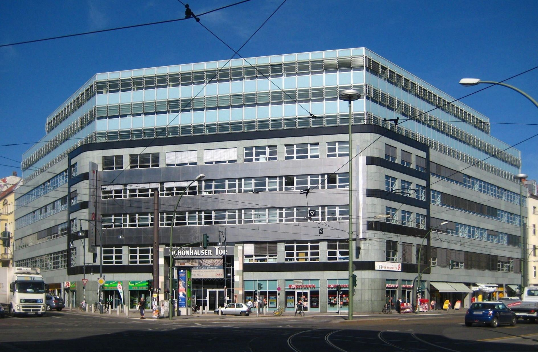 Residential, office and commercial building "Schönhauser Tor" at Torstraße No. 49, corner of Schönhauser Allee (on the left), in Berlin-Prenzlauer Berg. The building was constructed from 1994 to 1995 to a design by the architects FFNS und Giese, Bohne & Partner (Düsseldorf).